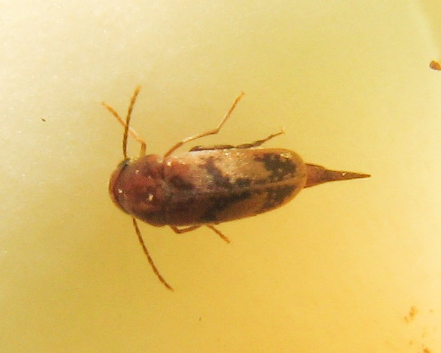 Tumbling flower beetle, Mordellistena masoni, on magnolia blossom. Horsham trail, Horsham, Montgomery County, Pennsylvania, USA.